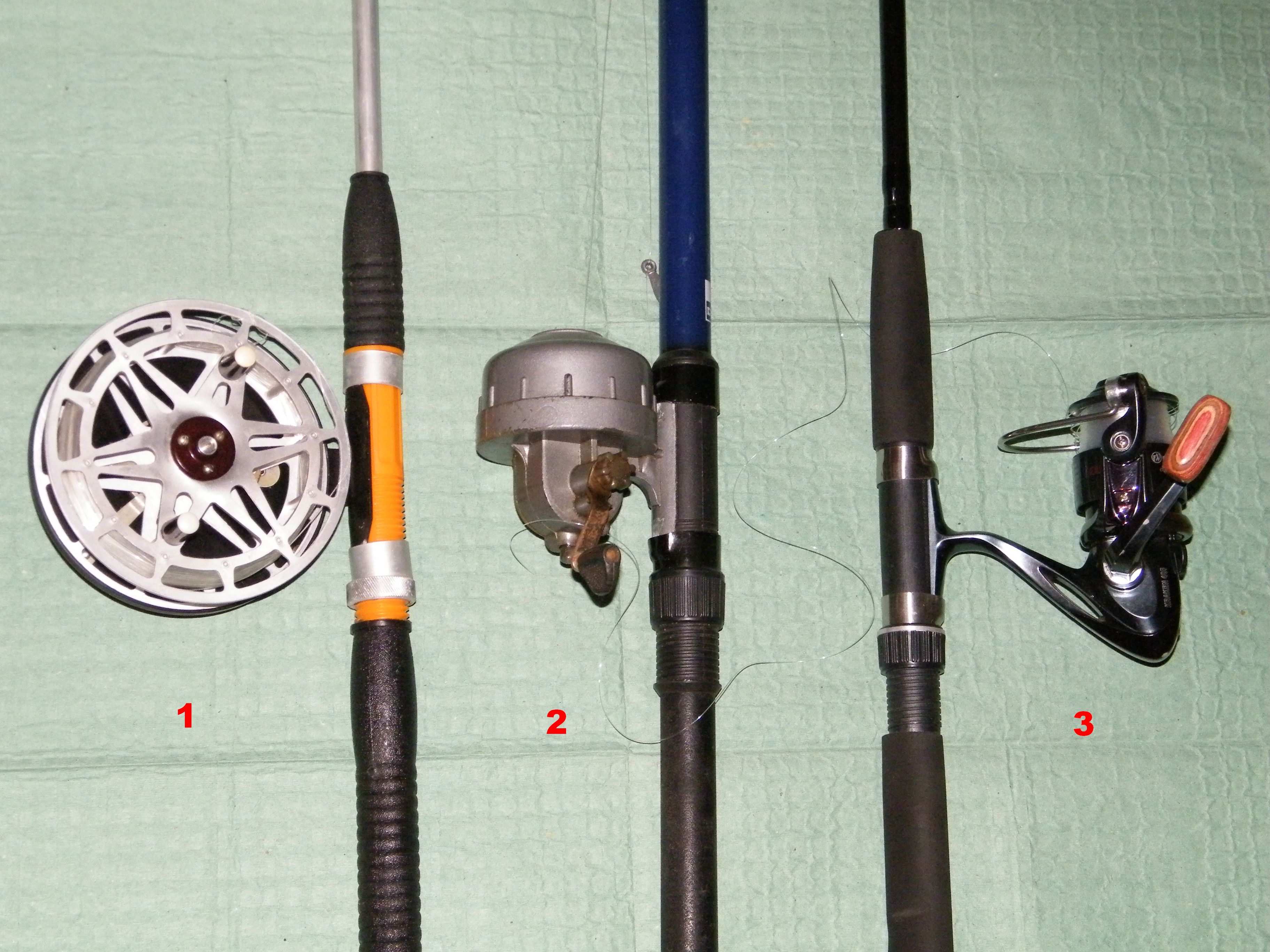 Fishing reels